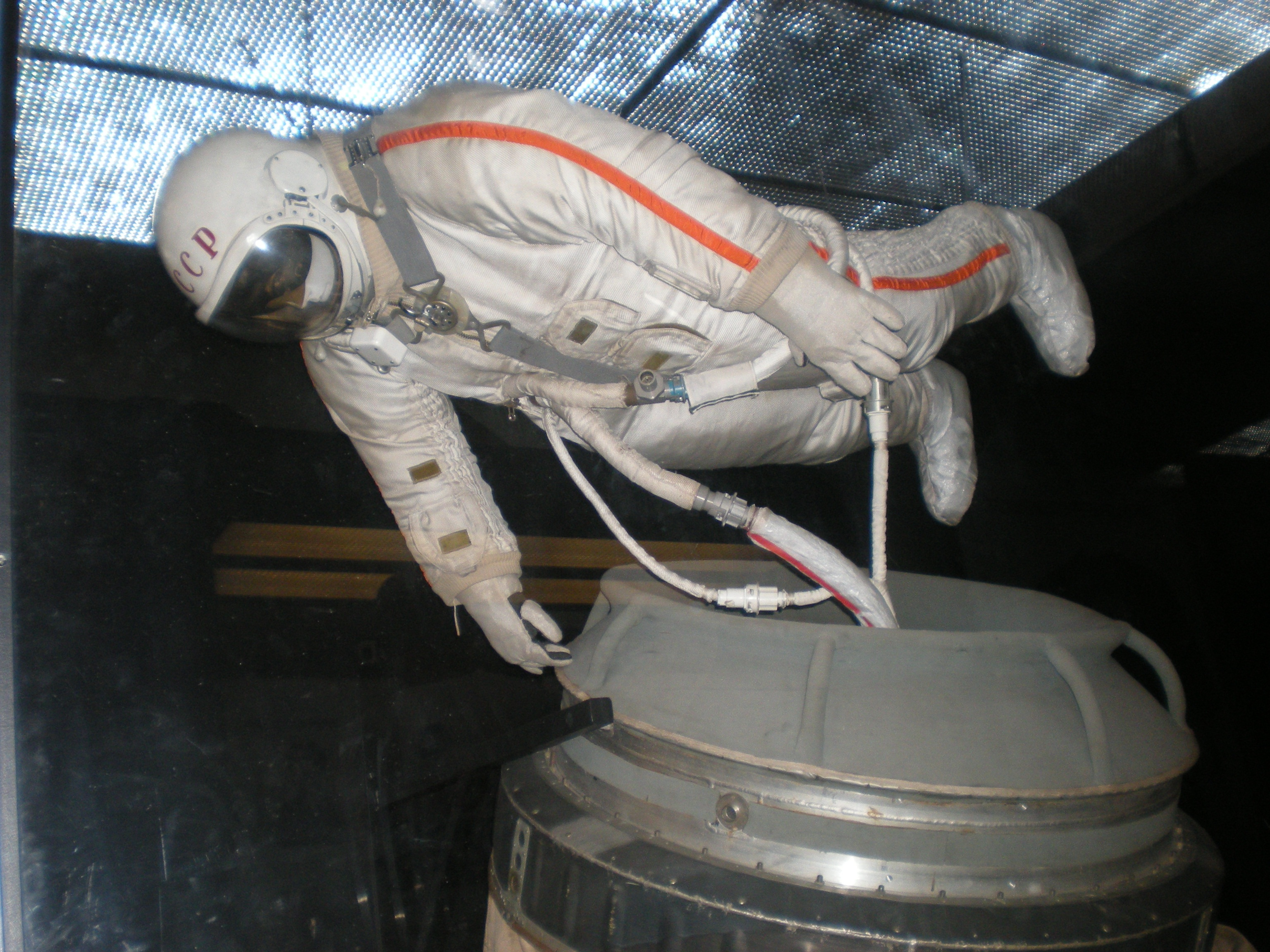 Berkut spacesuit at Air and Space.